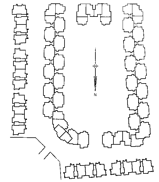 Map of Papaverhof, Den Haag